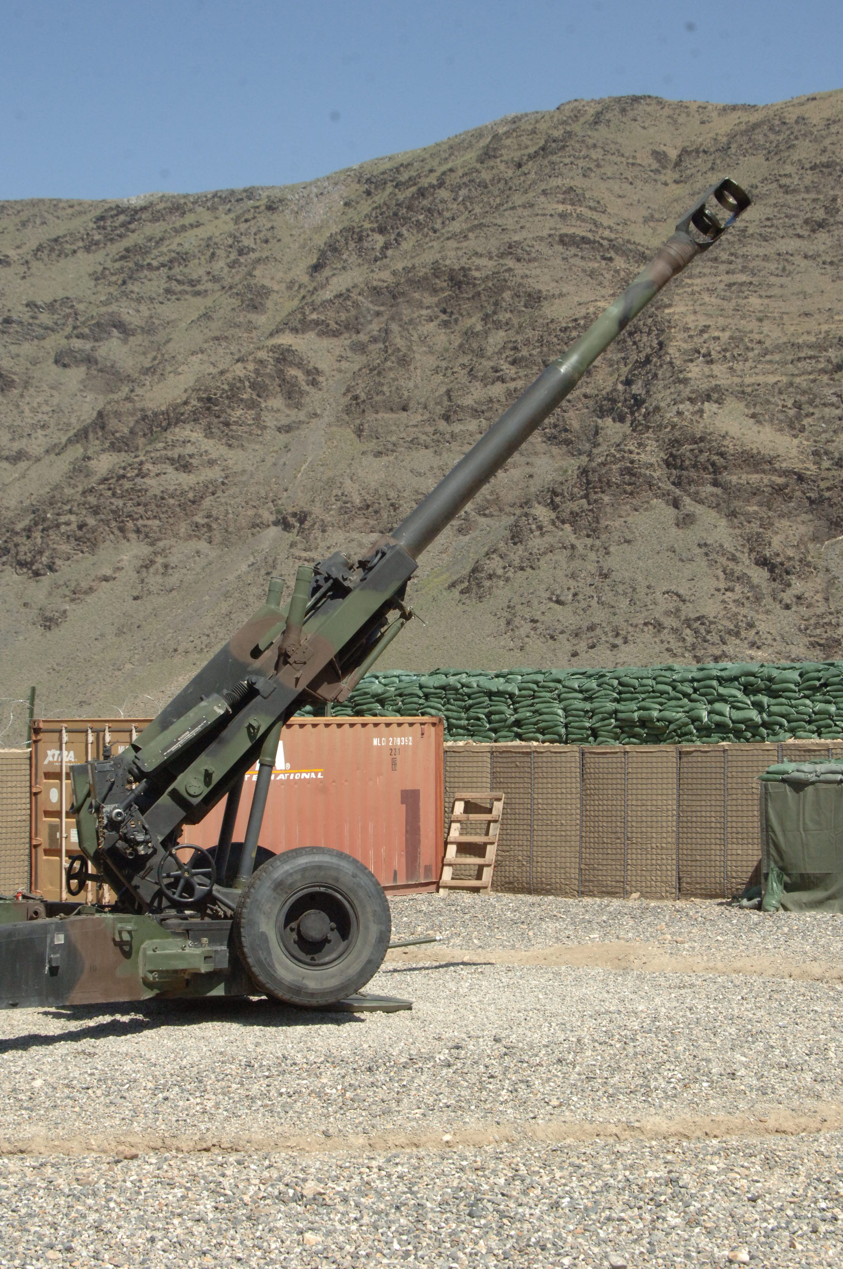 The following is the author's description of the photograph quoted directly from the photograph's Flickr page. "A 155 mm M-198 towed Howitzer stands ready on Forward Operating Base Kalagush, Afghanistan, June 14, 2007. The Howitzer is assigned to 1st Howitzer Company, Alpha Battery, 4th Battalion, 319th Airborne Field Artillery Regiment, 173rd Airborne Brigade Combat Team. (U.S. Army photo by Staff Sgt. Isaac A. Graham/Released) "